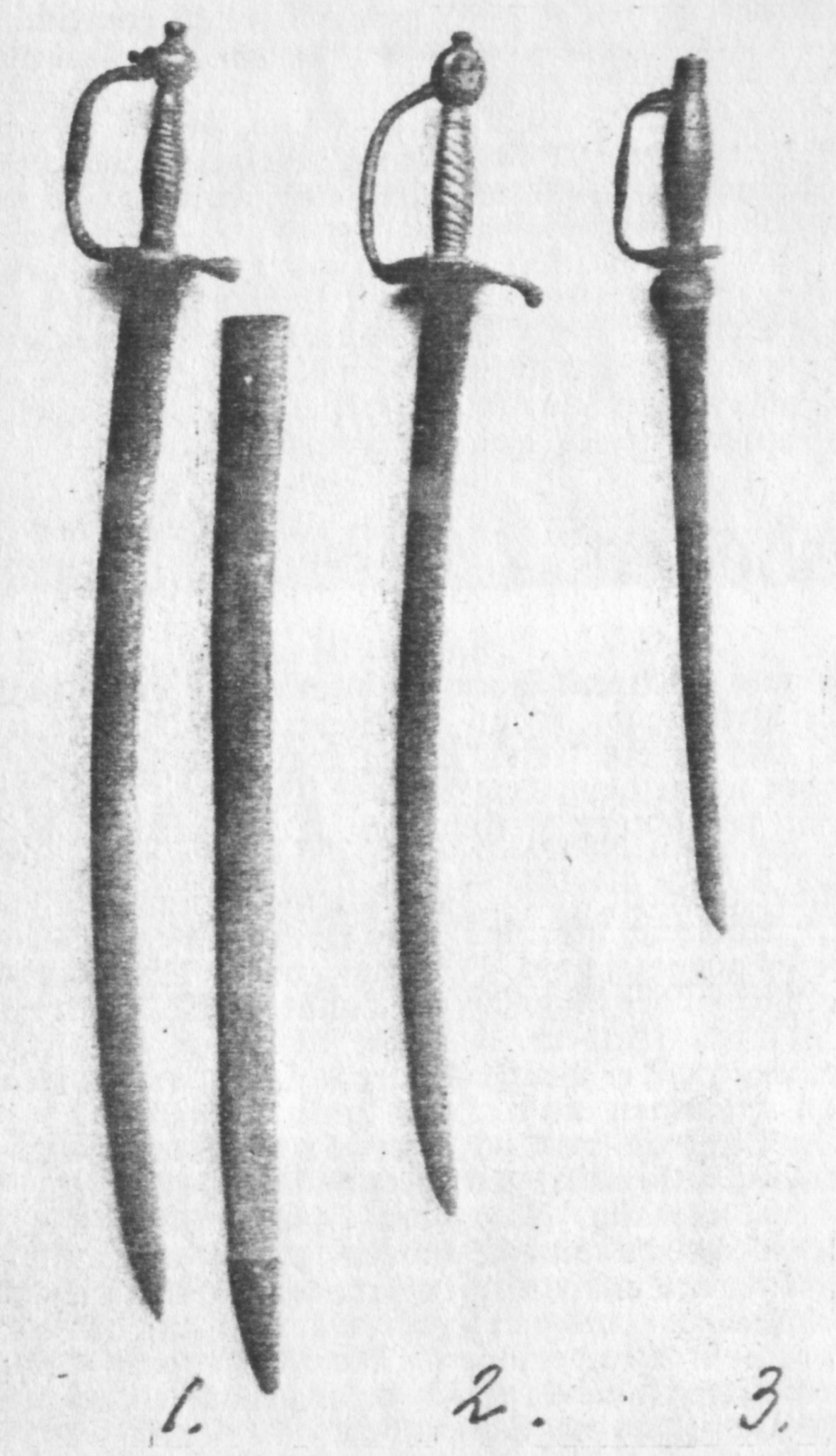 German 19th century ceremonial Hochzeitsdegen (Wedding Epees) from Mecklenburg. 1: From Groß Siemz-Lindow; 2: From Schlagsdorf; 3: From Groß Siemz-Klein Siemz, used in 1849